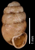 Photo of Vertigo alpestris. Scale in mm. Locality: Slovakia: Vely Sokol, Slovensky Raj. Date: 19-07-1973.